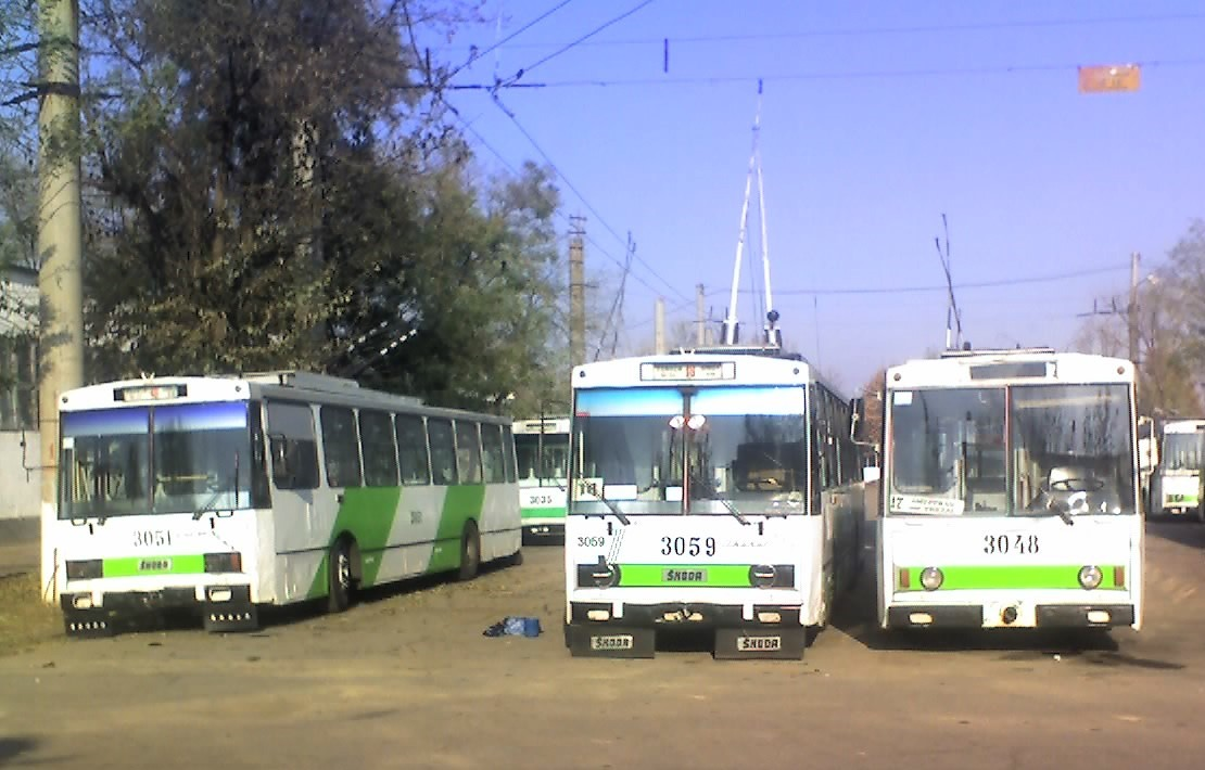 Trolleybuses in tram-trolleybus depot №3 of Tashkent